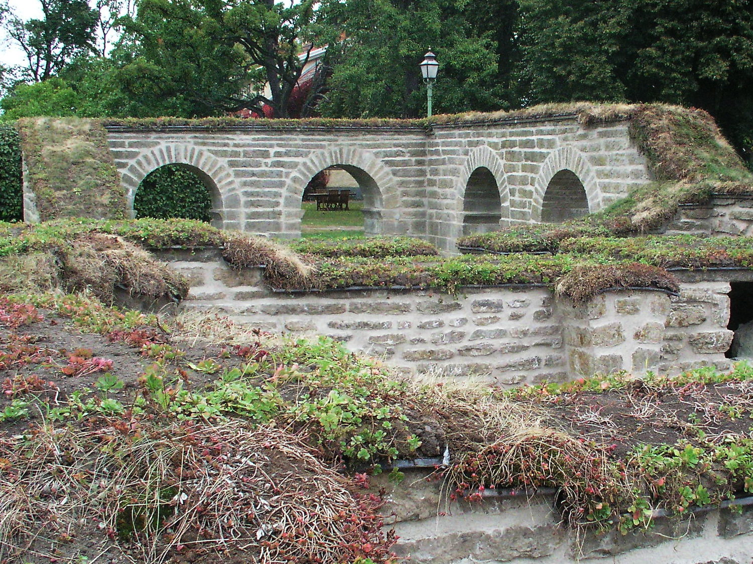 Vreta kloster. Restorated monastery walls. The photo was taken by Håkan Svensson (Xauxa) the 28th September 2003.